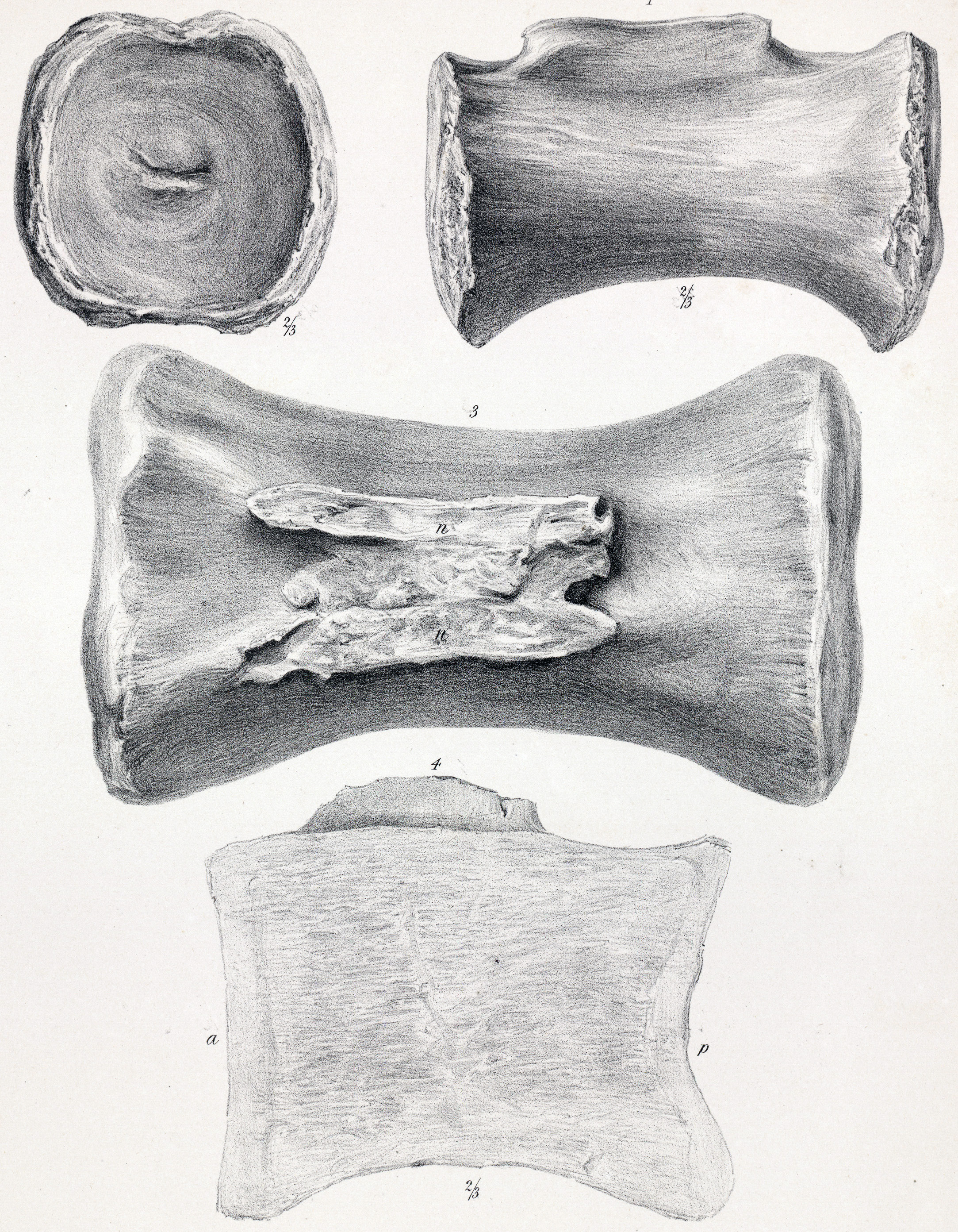 Fig. 1. Caudal vertebra, side view, Cetiosaurus longus. Fig. 2. Terminal articular surface of do. Fig. 3. Upper surface of do. Fig. 4. Vertical longitudinal section of a dorsal vertebra of do. Fig. 3 is of the natural size; the rest are reduced to two thirds the natural size. Subsequently shown to belong to the Dinosaurian order.